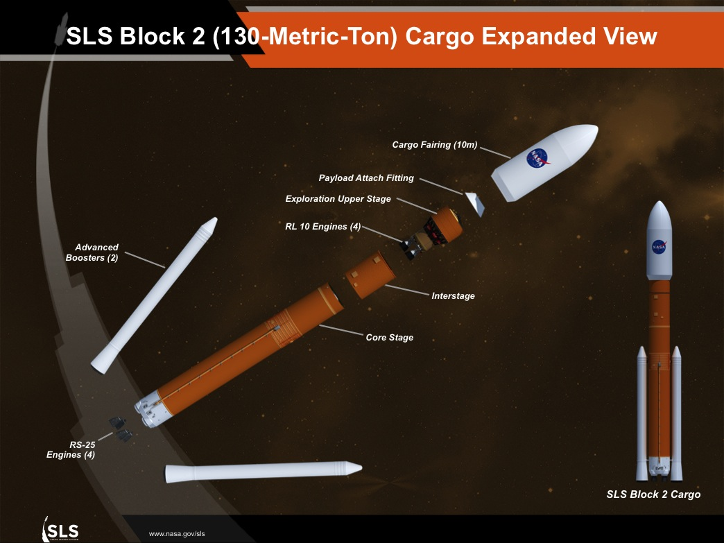 An expanded view of an artist rendering of the 130-metric-ton configuration of NASA's Space Launch System (SLS), managed by the Marshall Space Flight Center in Huntsville, Ala., shows the many different elements of the rocket design. Used primarily to launch heavy cargo, this two-stage vehicle will be the largest rocket ever built and will enable exploration missions beyond low-Earth orbit, supporting travel to asteroids, Mars and other deep space destinations.